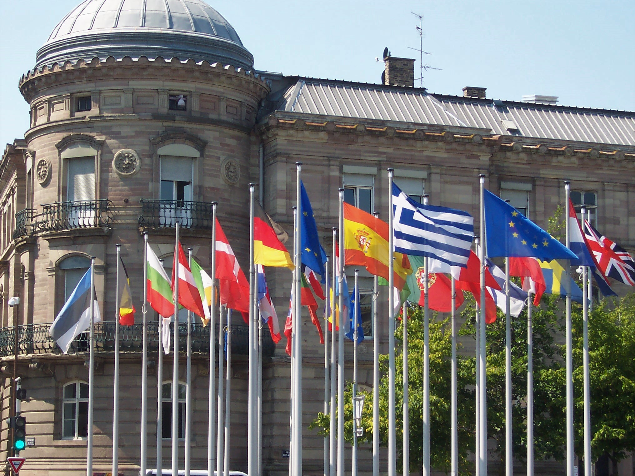 Flags of Europe and of the 28 member states (in 2003) of the European Union, flying outside Strasbourg station, Strasbourg, Europe.